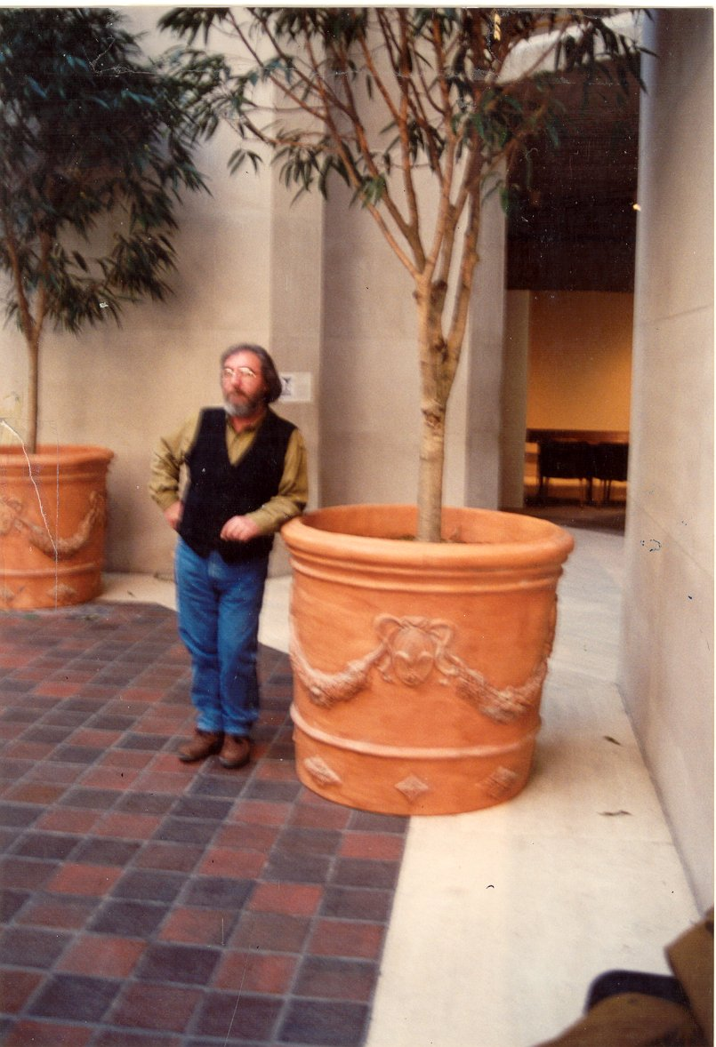 Sergio Rubino in 1993 realized 8 huge vases (3,9ft x 3,9ft), decorated with historical scenes, commissioned by the Metropolitan Museum of Art, New York, which are now standing in the Robert-Lehman-Foundation in the complex of the Florentine Gardens.